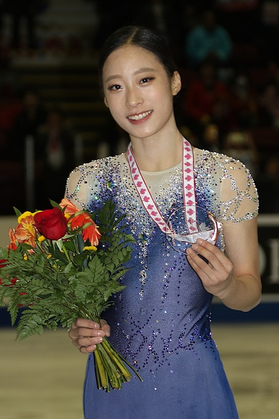 You Young at the 2019 Skate Canada - Awarding ceremony